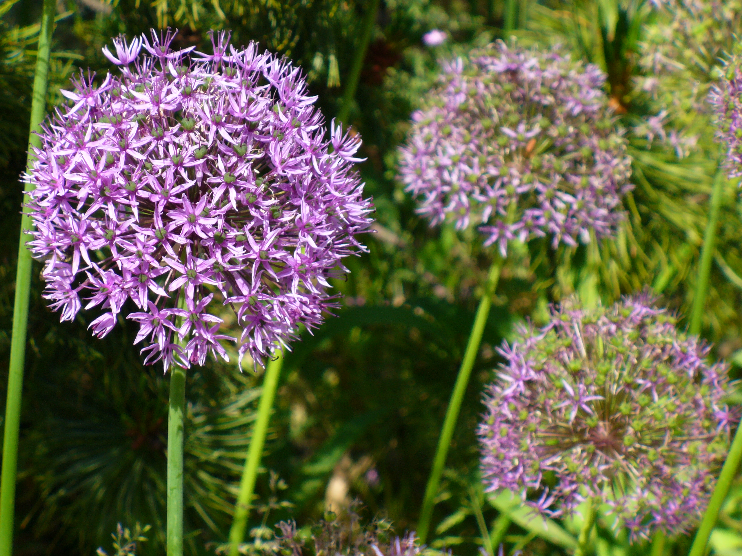 please help to categorize- respect the stress